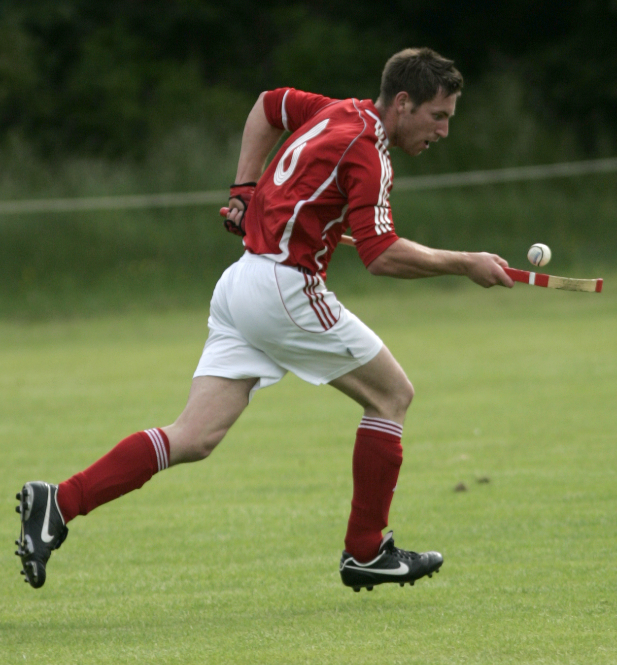 Kinlochshiel vs Strathglass - Balliemore Cup Final '09